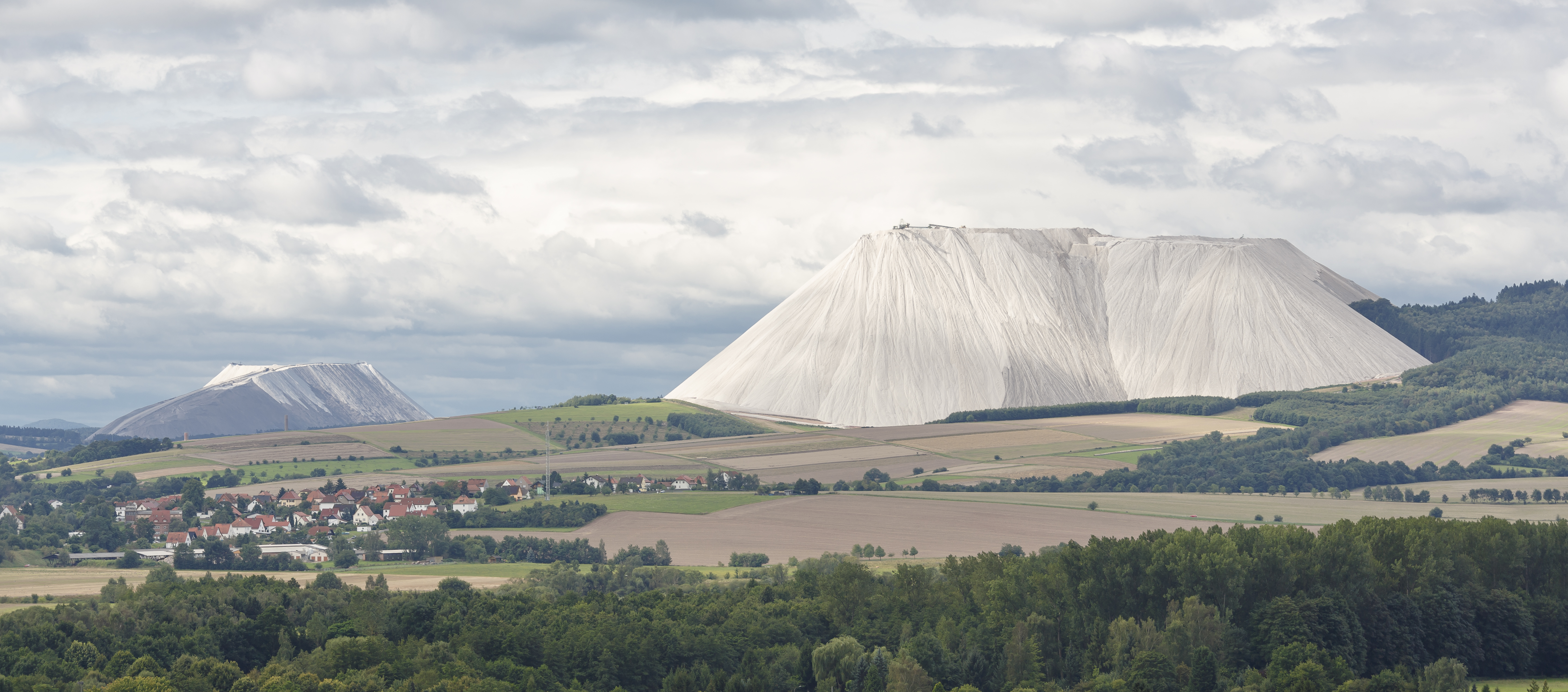 Heringen (Werra), Germany: Monte Kali (Wintershall); in the background the mining dump of Hattingen kali plant at Philippsthal